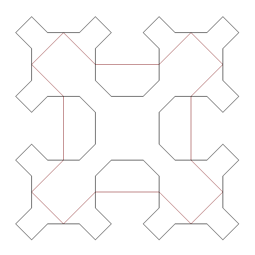 Sierpinski Curves (fractals) of orders 1 and 2. Drawn by a Java program I did myself.